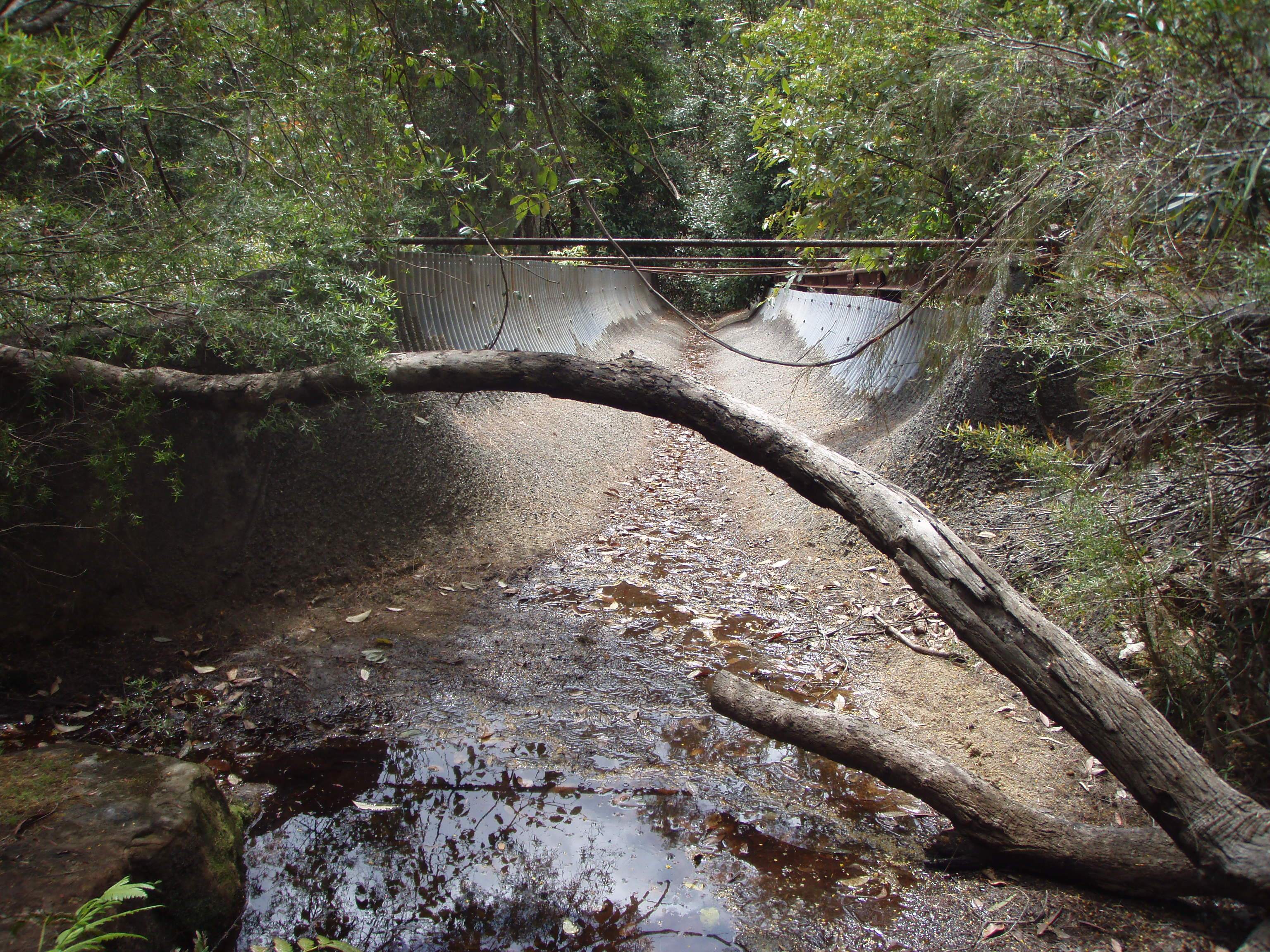 Following a heavy storm during construction of the Woy Woy tunnel, it was found that water from a creek that ran above the tunnel near the southern portal was leaking through the bedrock and into the tunnel. This flume was constructed as a "temporary" measure, but is still in place.